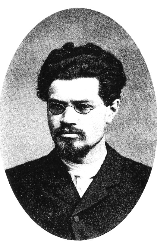 V. P. Konashevich accomplice of Sergey Degayev